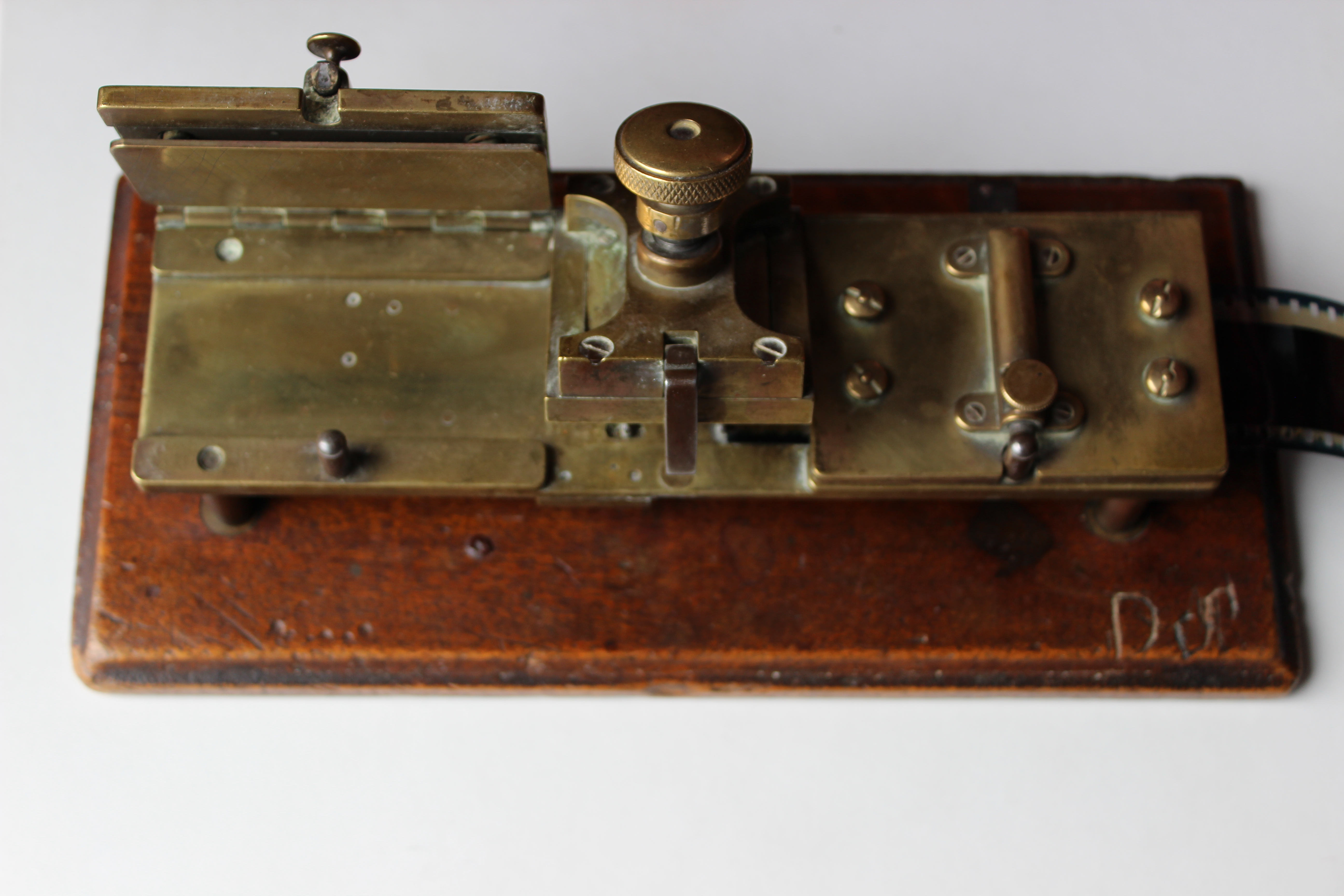 Splicer for 35mm films (1910)